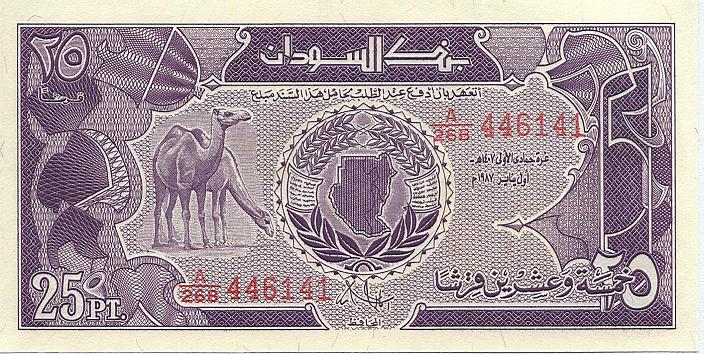 Obverse of a 25 piastres banknote of Sudan. Series 1987 (issued 1987-1990).